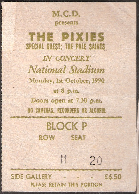 Pixies concert ticket for a concert at the National Stadium in Dublin, Ireland on the 1st of October 1990.